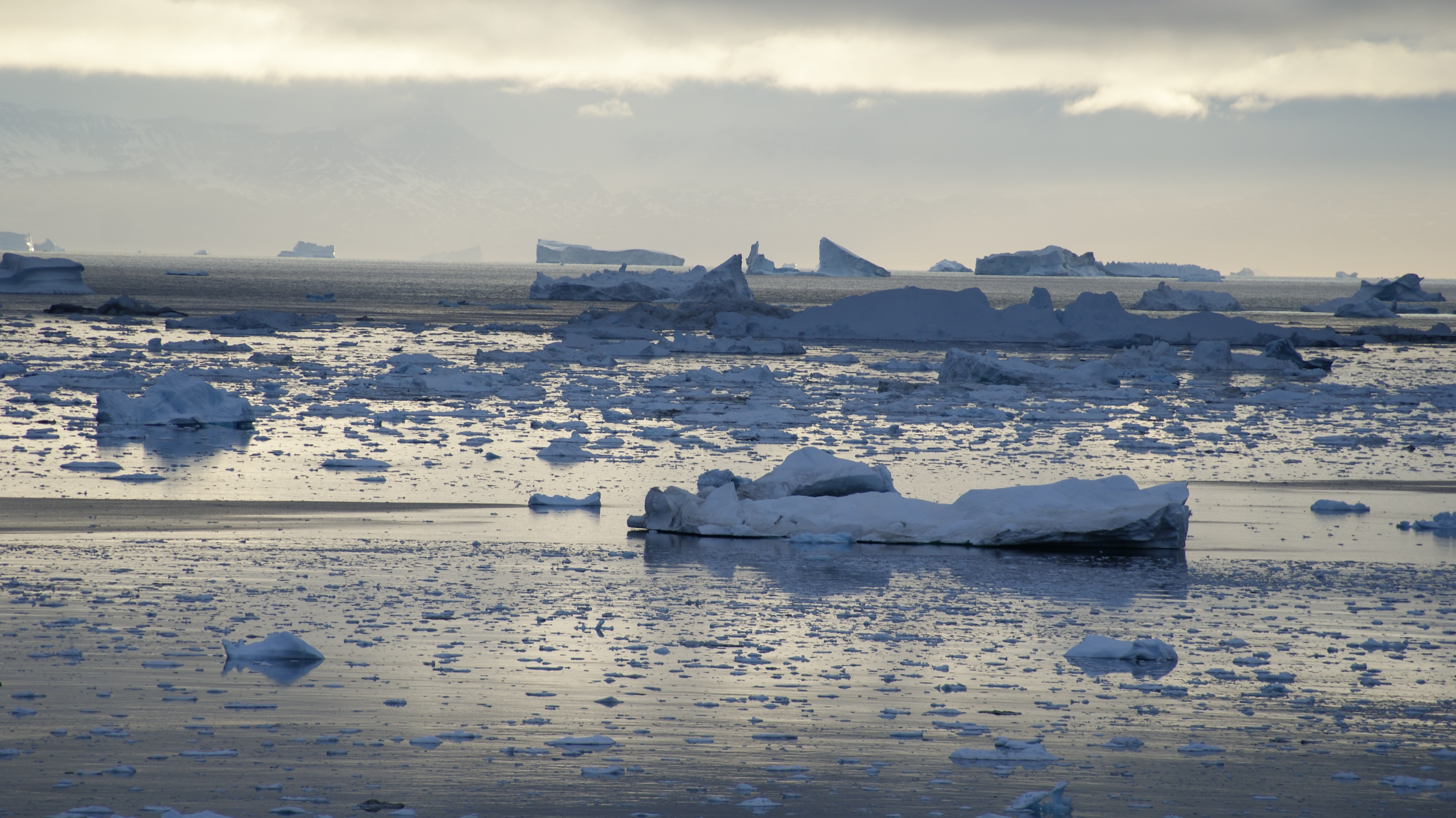 Qeqertarsuup Tunua (Disko Bay) between Ilulissat and Oqaatsut, Greenland. Late evening in the home of icebergs.